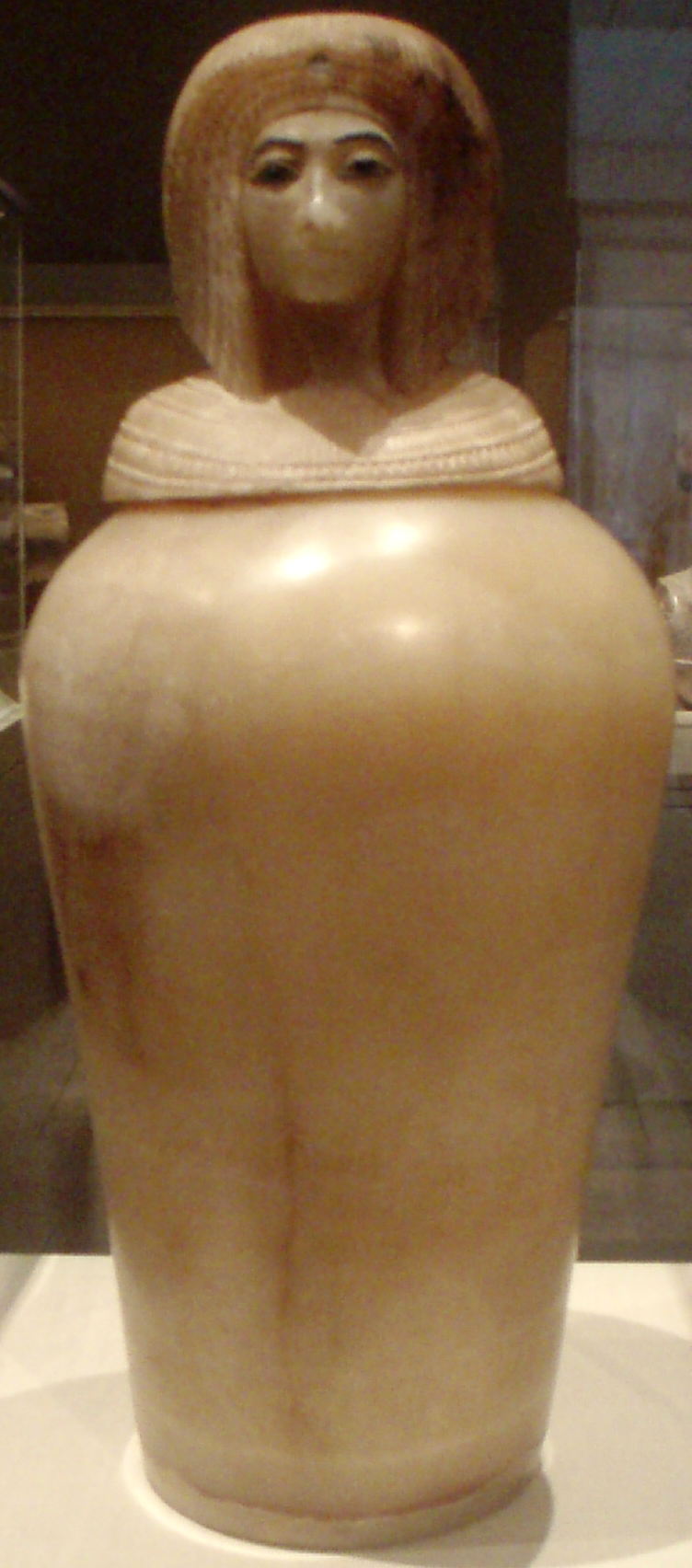 Egyptian alabaster canopic Jar depicting a likeness of an Amarna-era Queen, from tomb KV55.